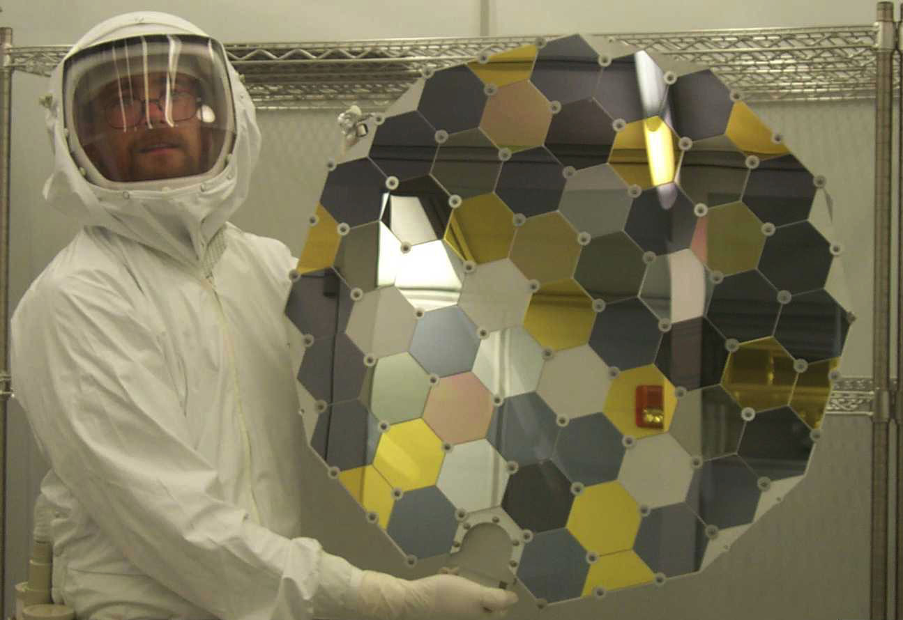 Genesis solar wind collector array before installation and launch.